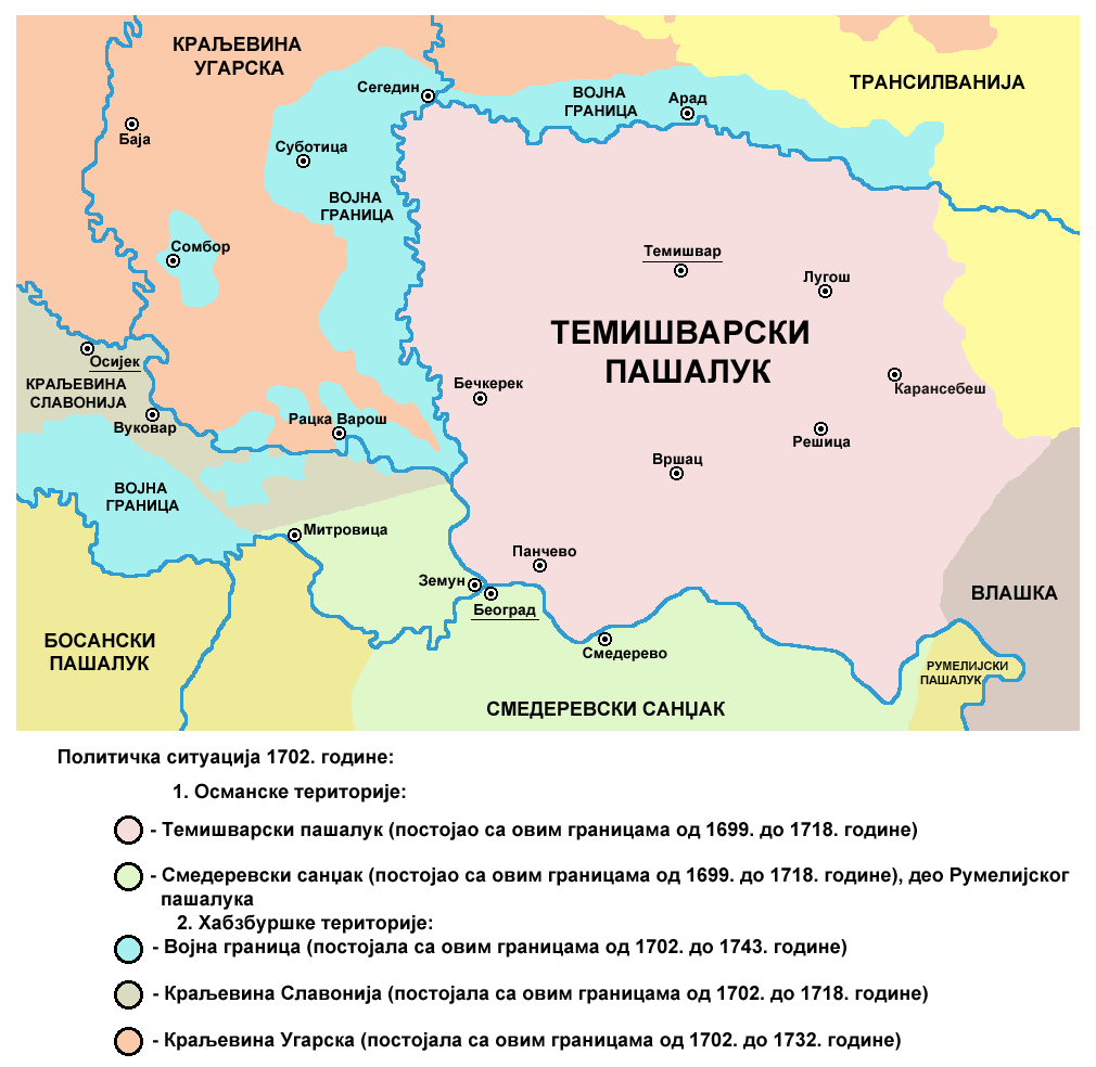 Map of the Eyalet of Temesvar and Military Frontier in 1702.